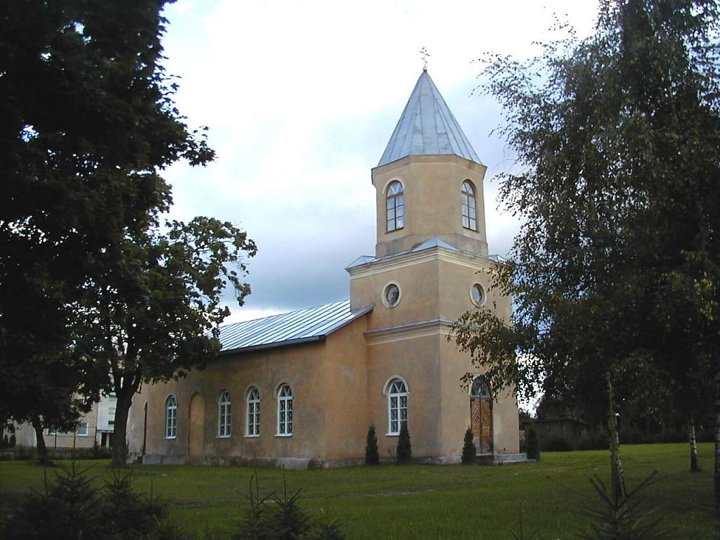 Orthodox Church in Ļaudona, Latvia